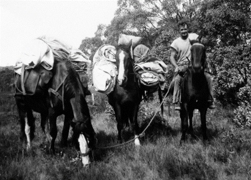 Moving assessment camp - Holmes plain - late 1950's